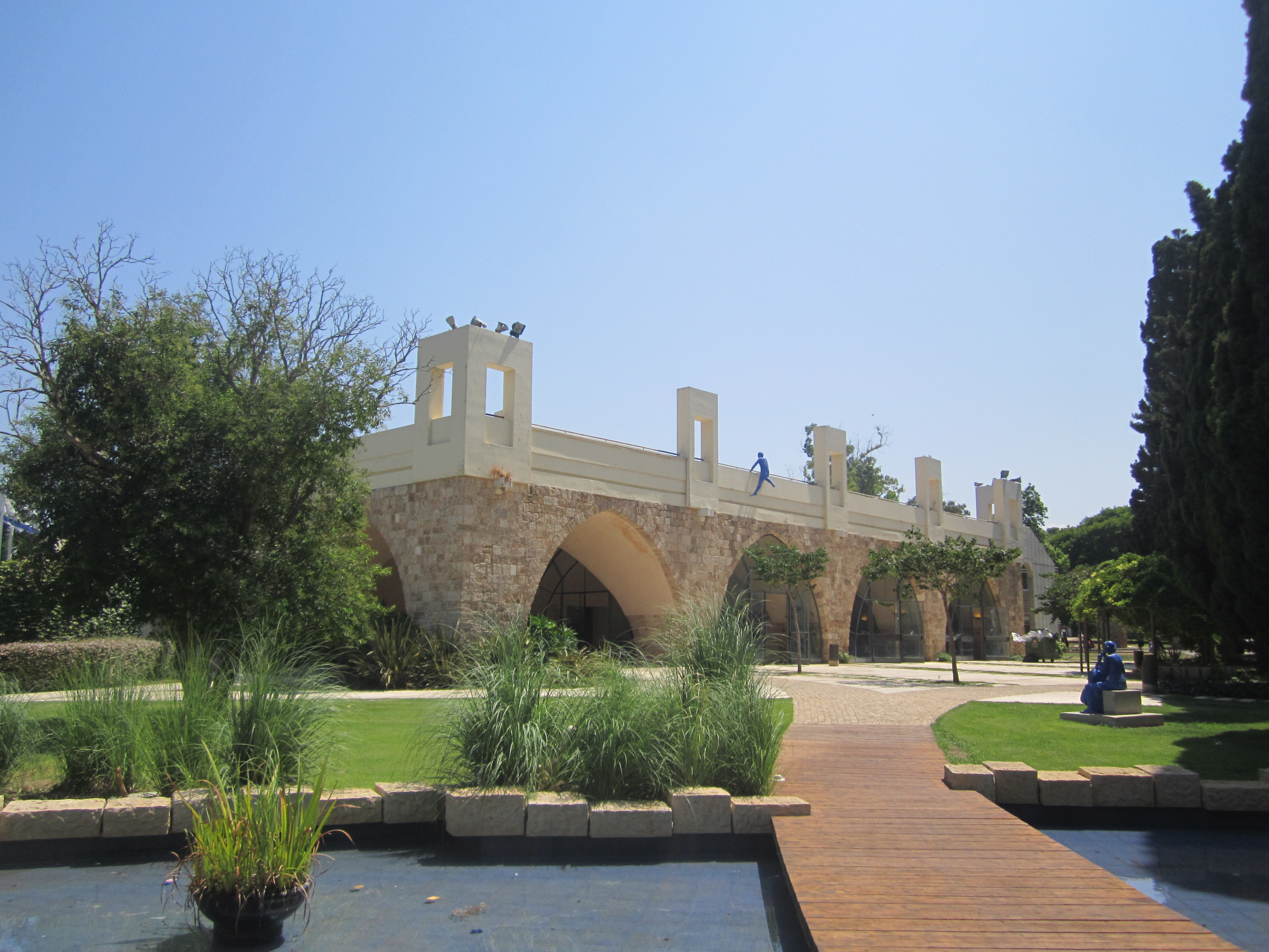 renovated ottoman building in manof youth village acre